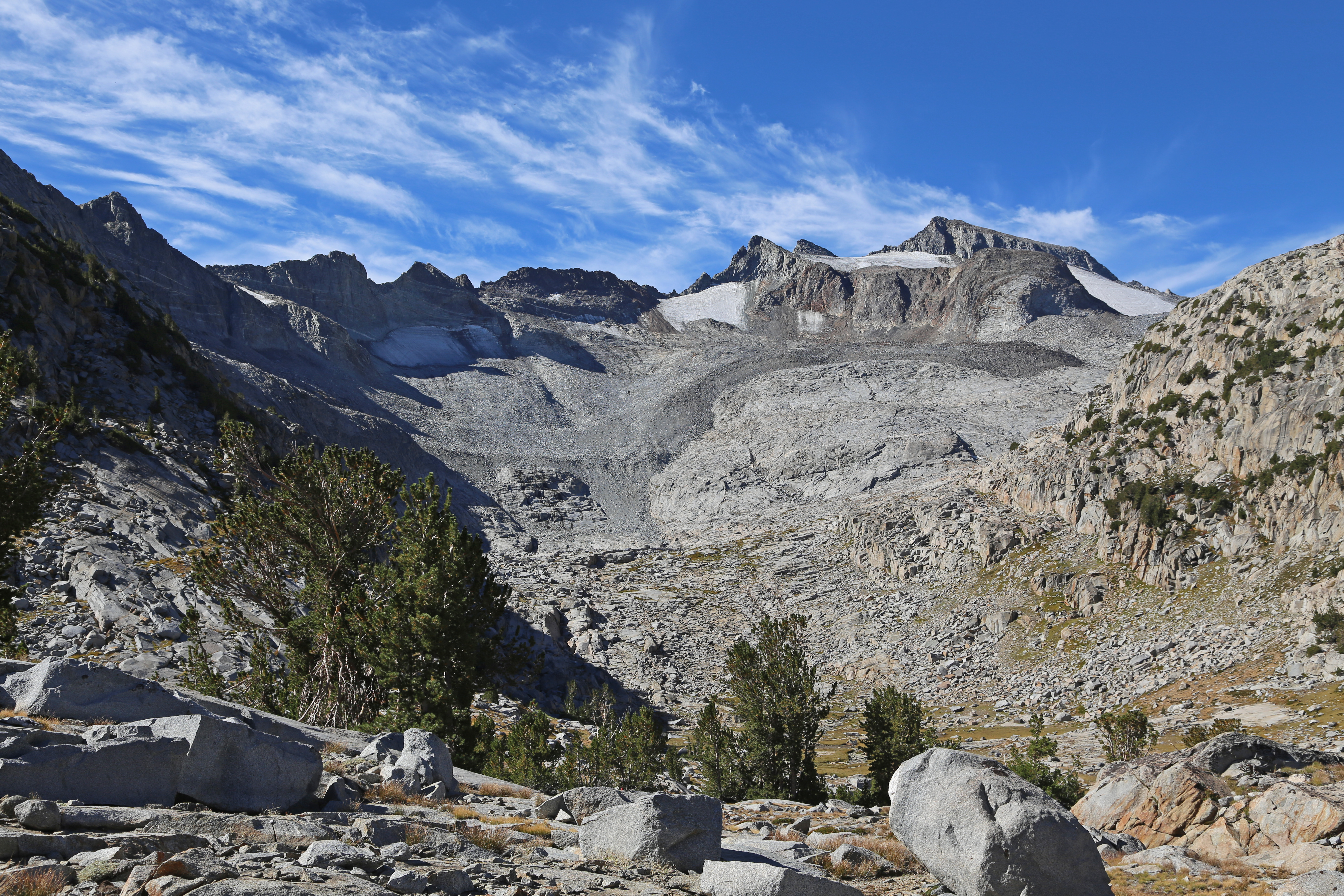 Mt Lyell, viewed from the John Muir Trail / Pacific Crest Trail on the shoulder North of Donahue Pass. Ansel Adams Wilderness, Sierra Nevada mountains, California.